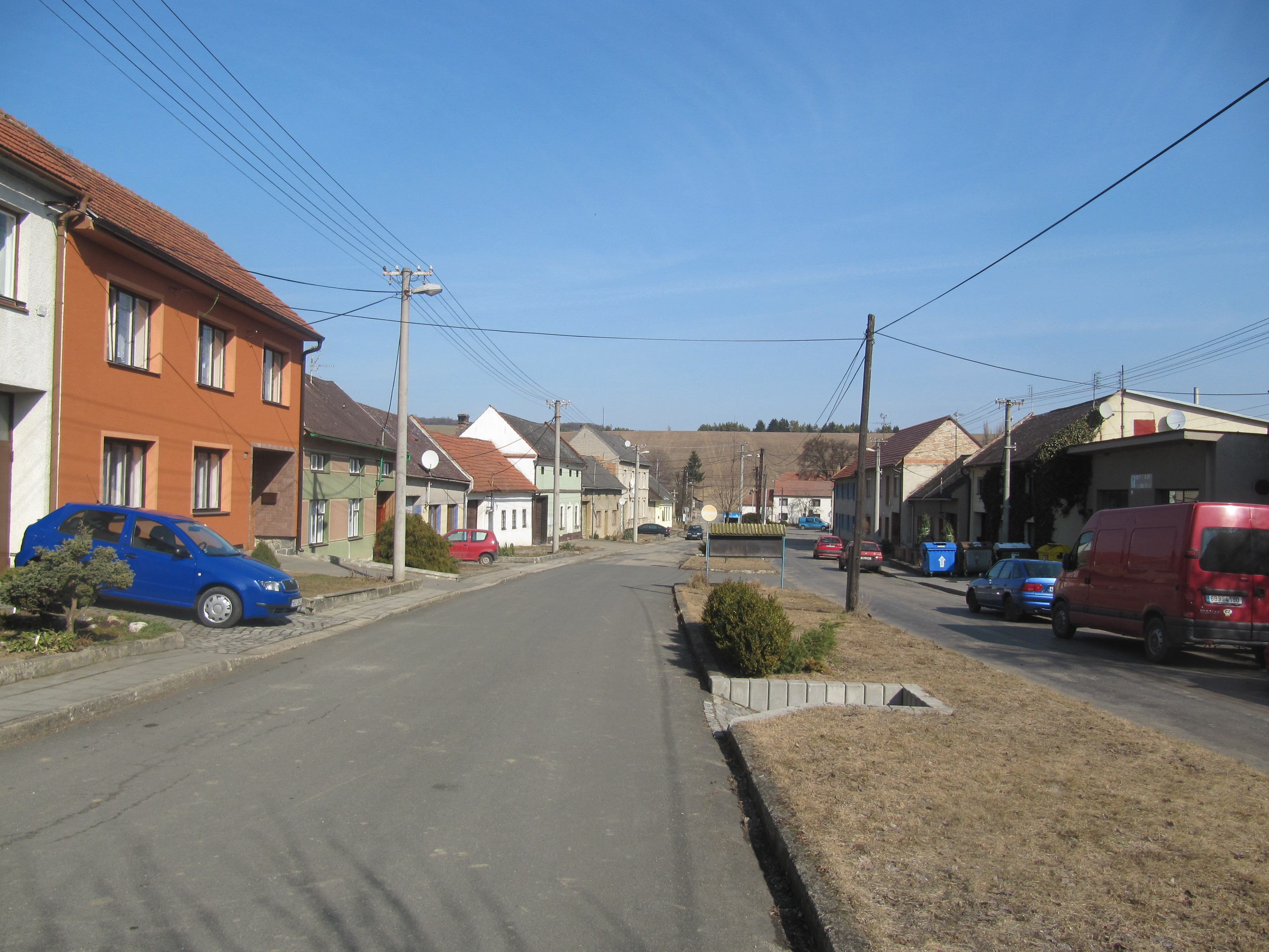 Malínky in Vyškov District, Czech Republic. Common.